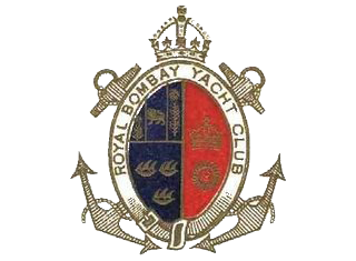 Royal Bombay Yacht Club